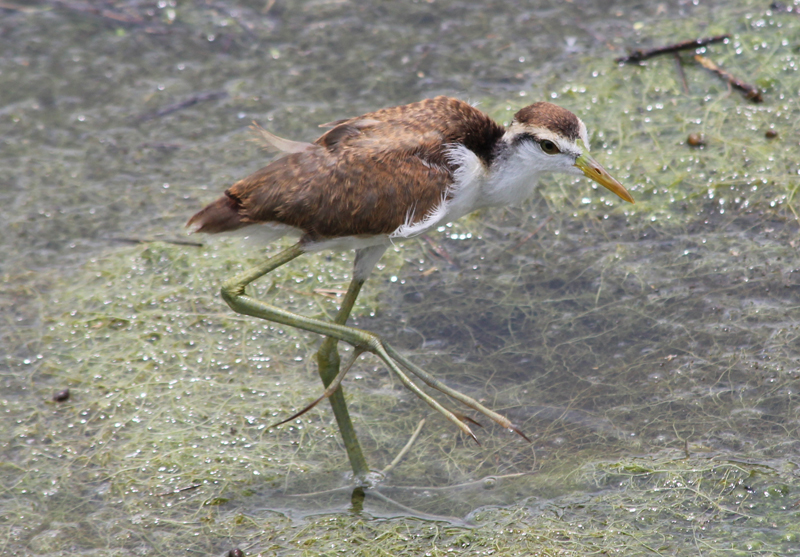 A juvenile Northern Jacana.